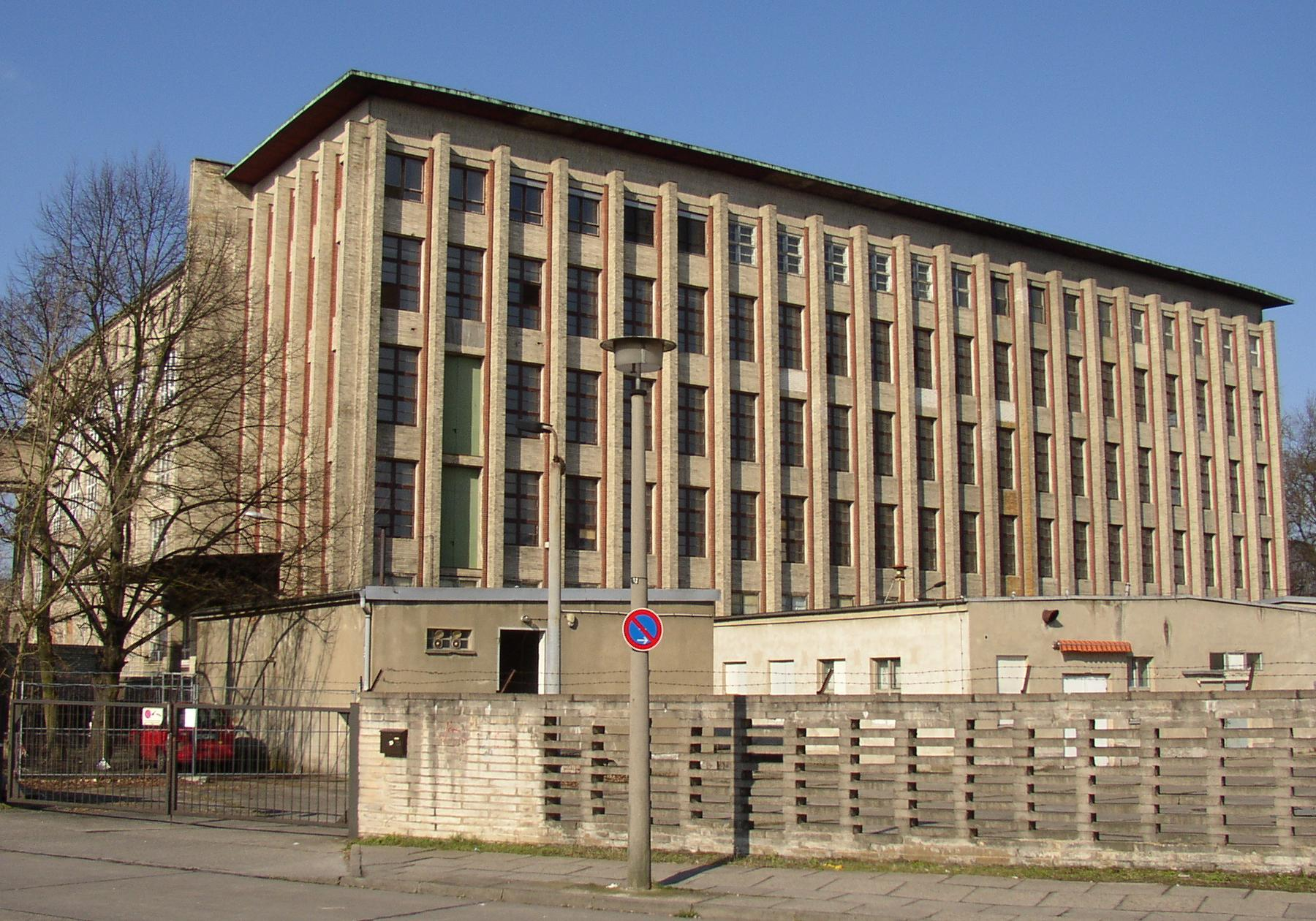 Former cigarette factory building in Berlin-Pankow, Germany